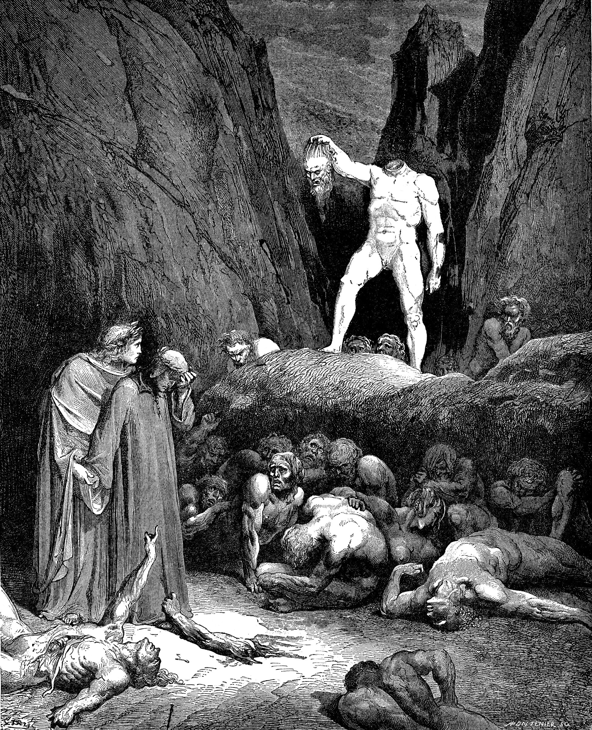 High resolution scan of engraving by Gustave Doré illustrating Canto XXVIII of Divine Comedy, Inferno, by Dante Alighieri. Caption: The Severed Head of Bertrand de Born speaks